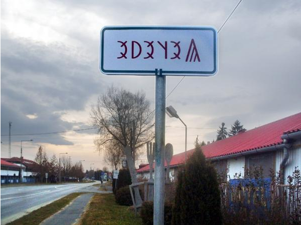 City limit table in Letenye, Hungary. Traditional hungarian letters (rovas)